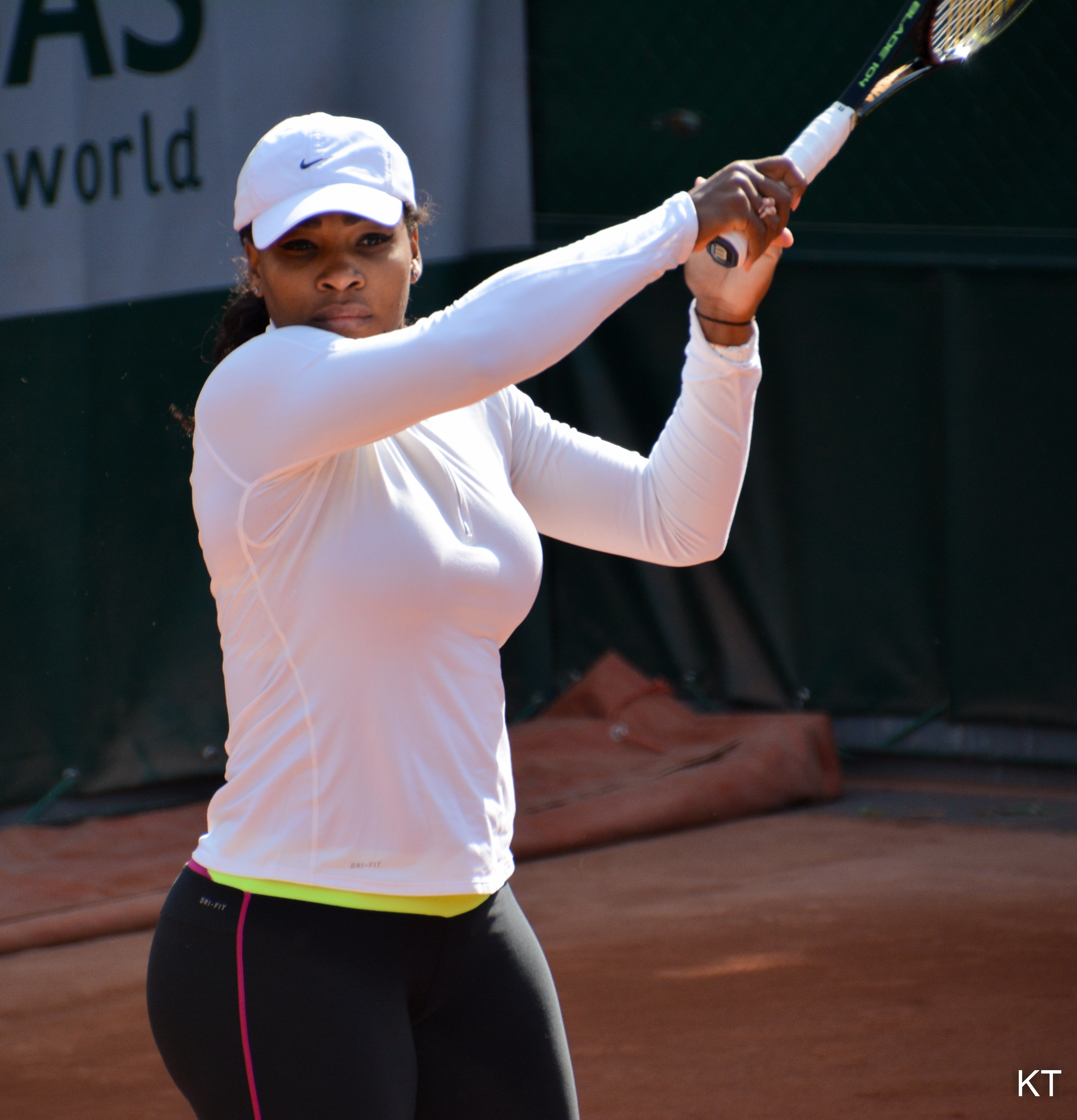 On the practice court. Day 5 of Roland Garros 2015. 2015 Roland Garros.